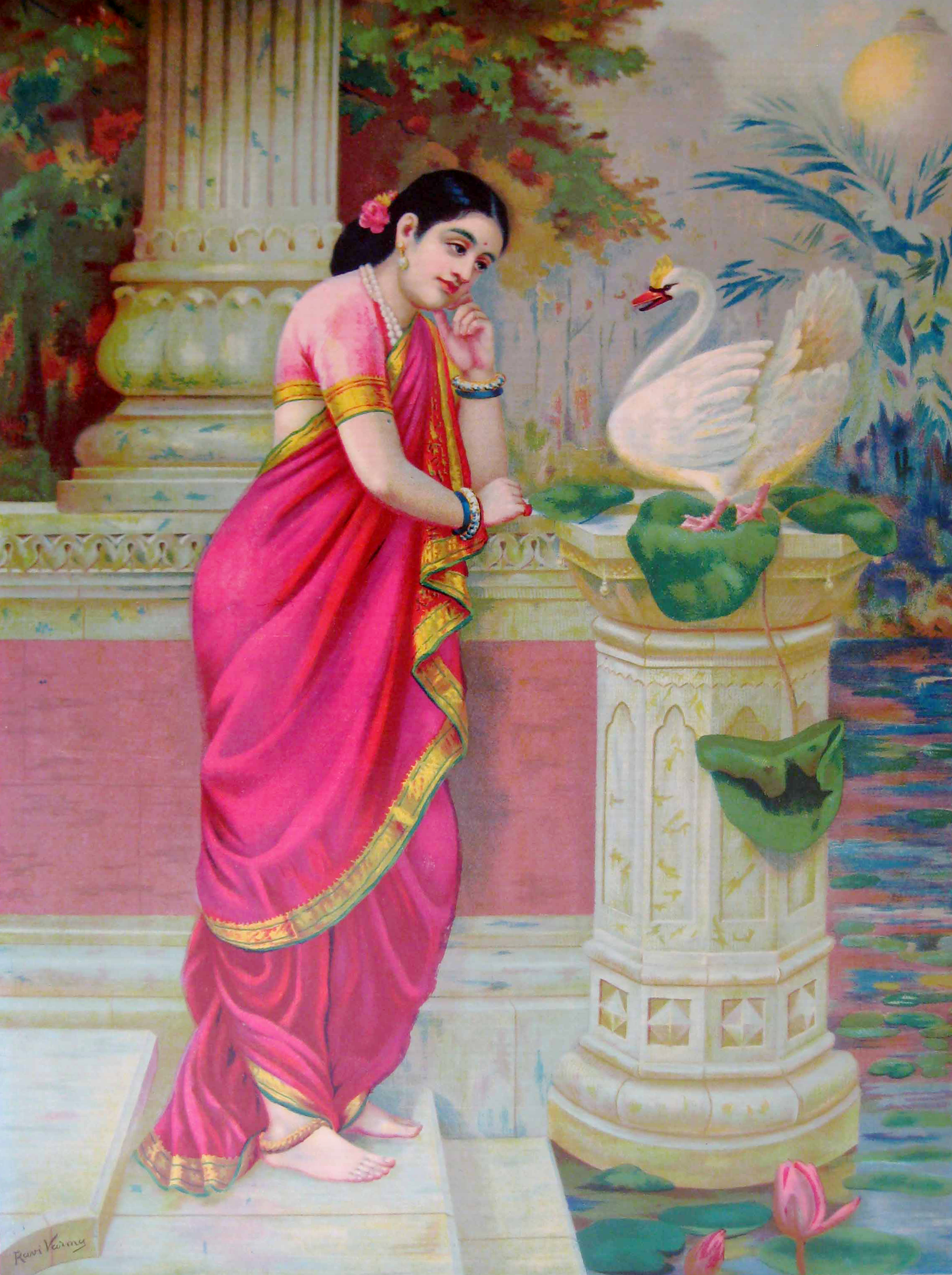 Hansa Damayanthi.